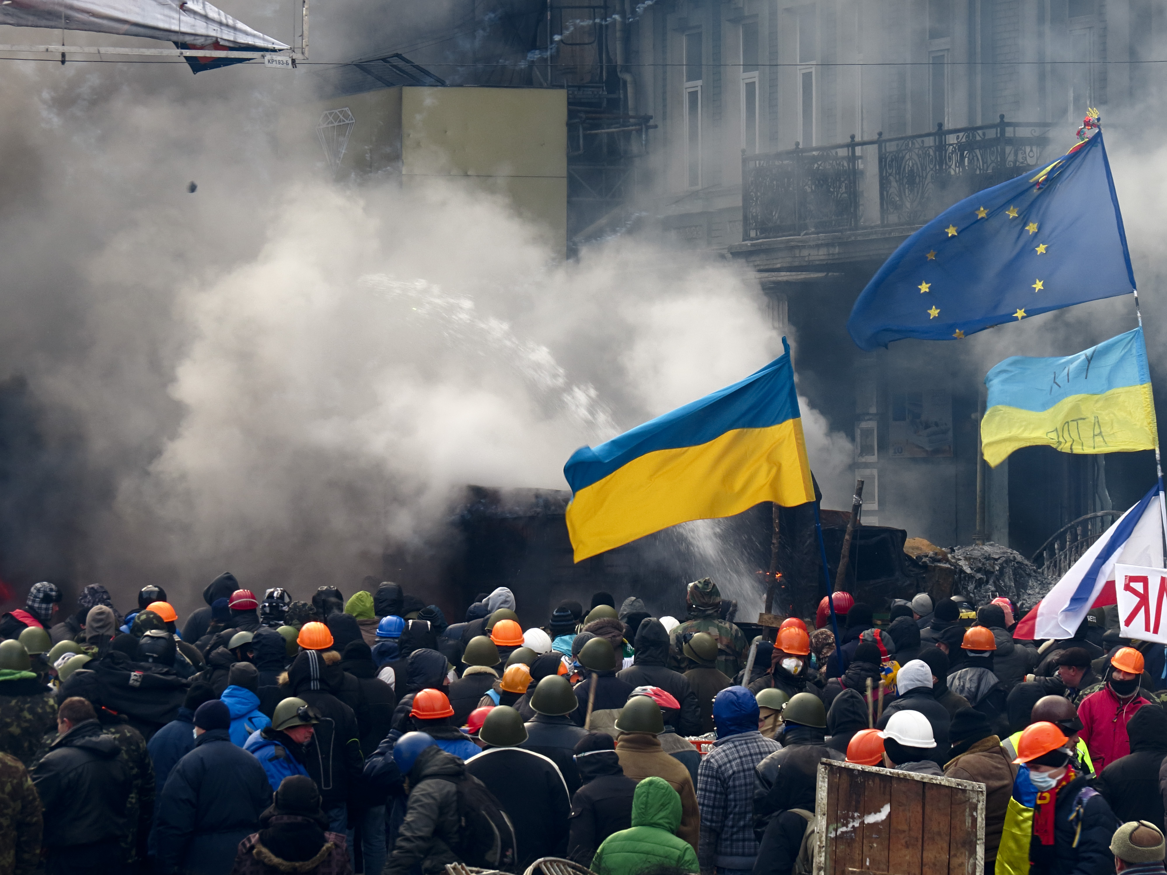 Euromaidan in Kiev. Hrushevsky street riots